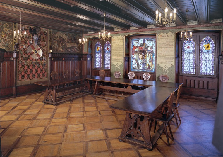 Freiburg: The so-called Stube in the Historical Kaufhaus on Münsterplatz